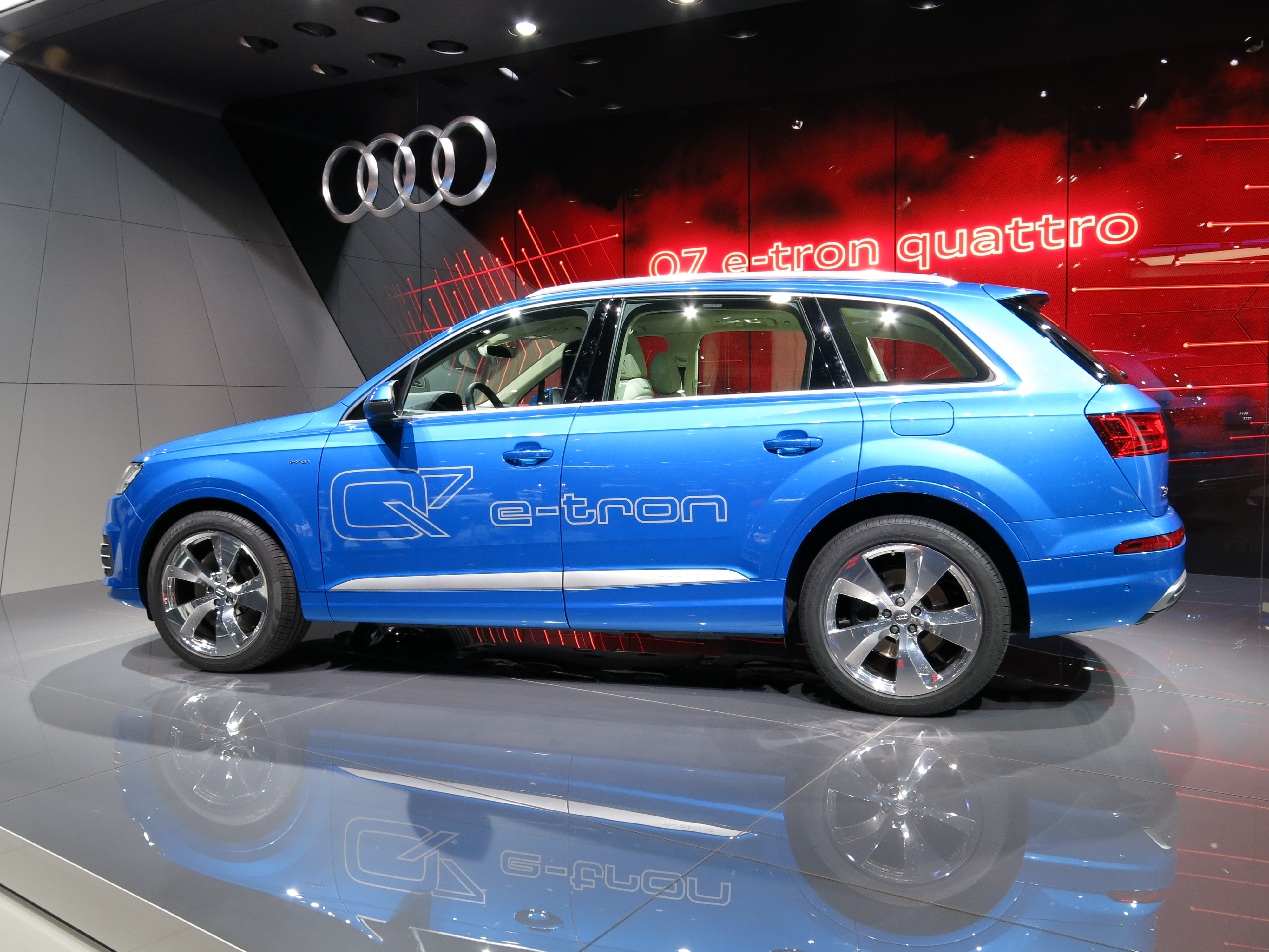 Geneva Motor Show 2015 (photo taken on the first press day)